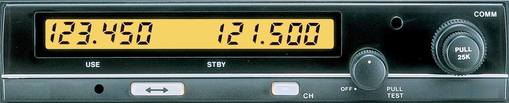 Transmitter receiver radio station tuned to an aeronautical band (118 to 137 MHz): 123.45 MHz et 121.5 MHz